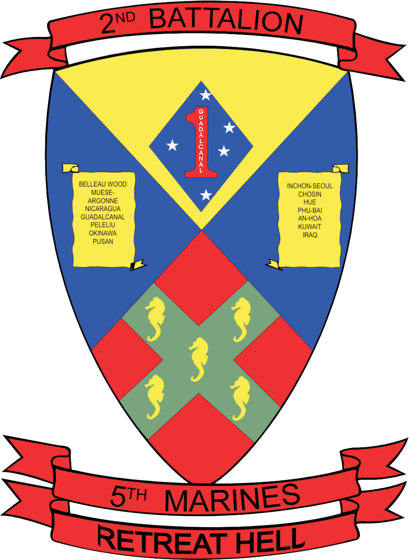 Insignia for 2nd Battalion 5th Marines.